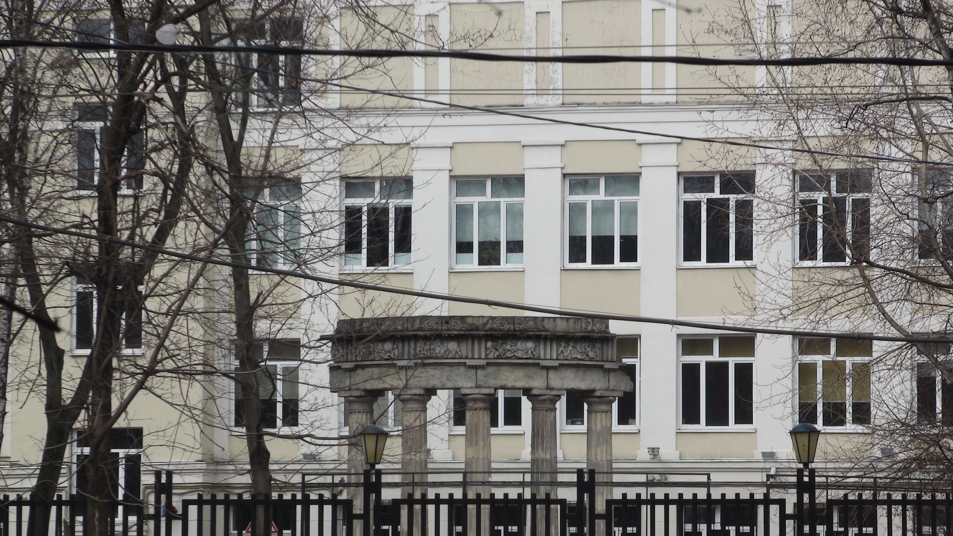 Bolshaia Akademishaskaia Street